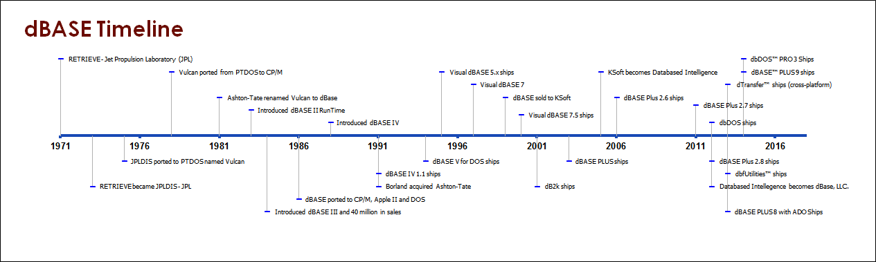 This gives a full timeline for all the dBASE Products